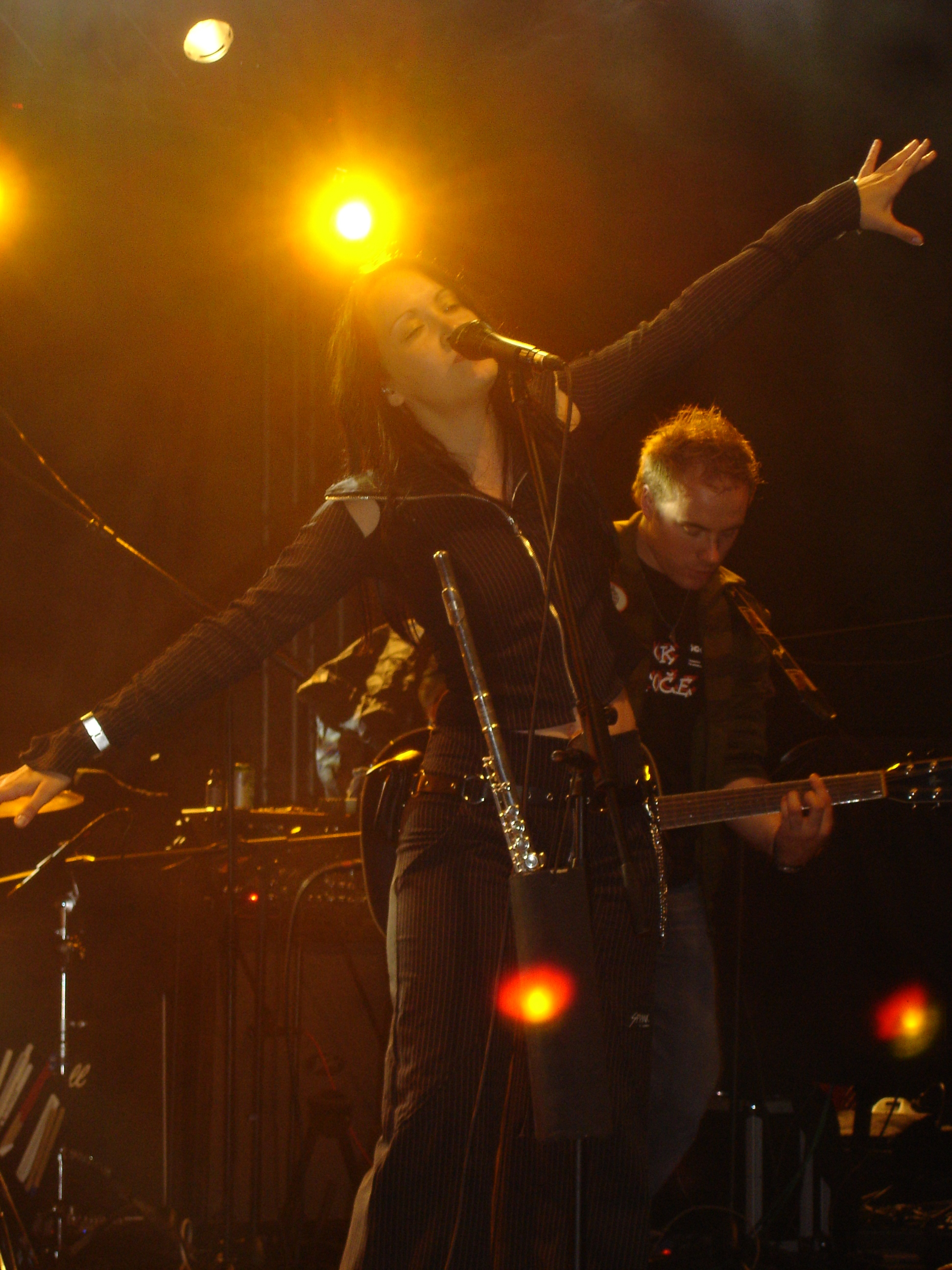 Tinkara Kovač performing on Festival Lent in Maribor.